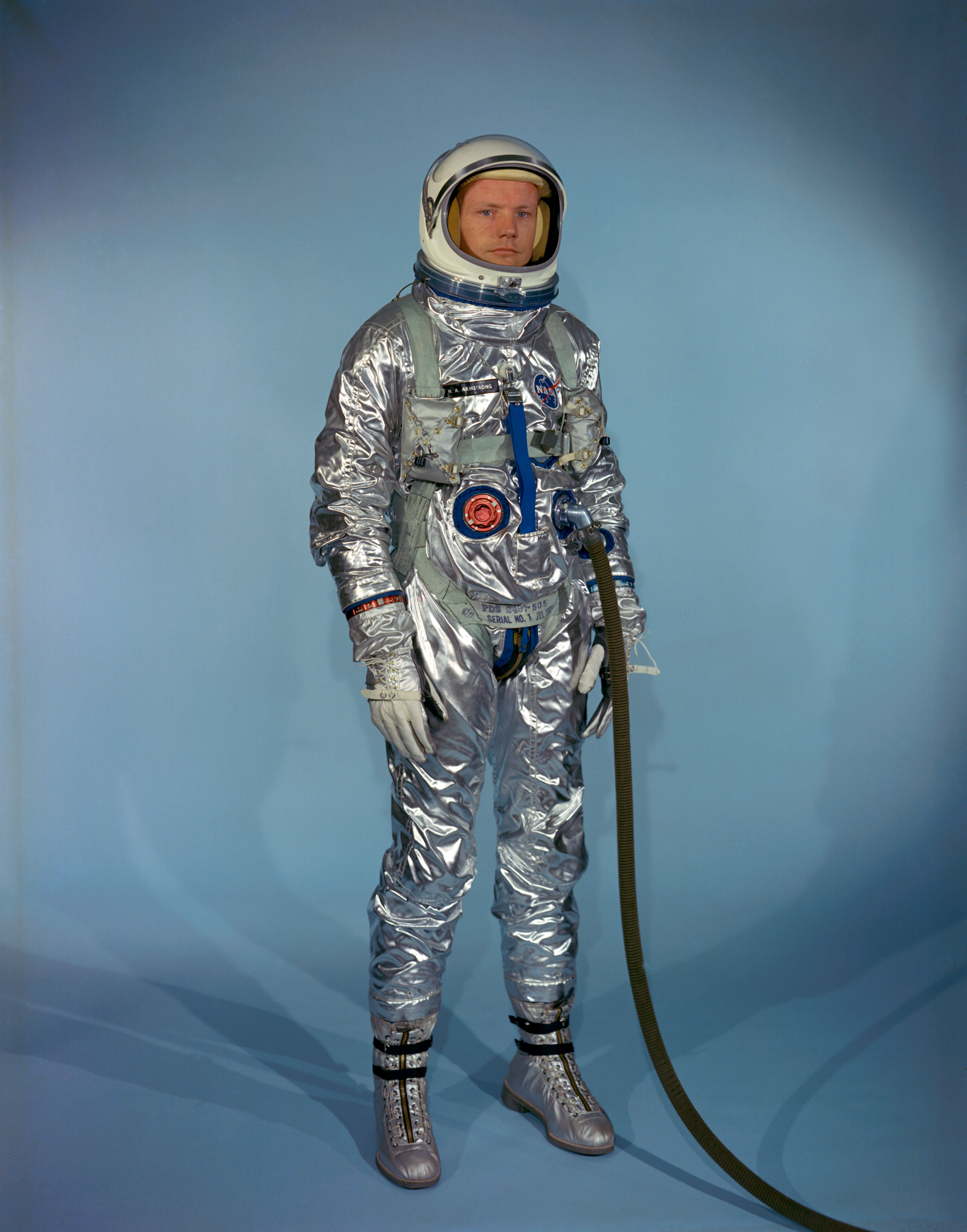 Neil Armstrong in a Gemini G-2C training suit. Note: This is not a "pre"-gemini spacesuit